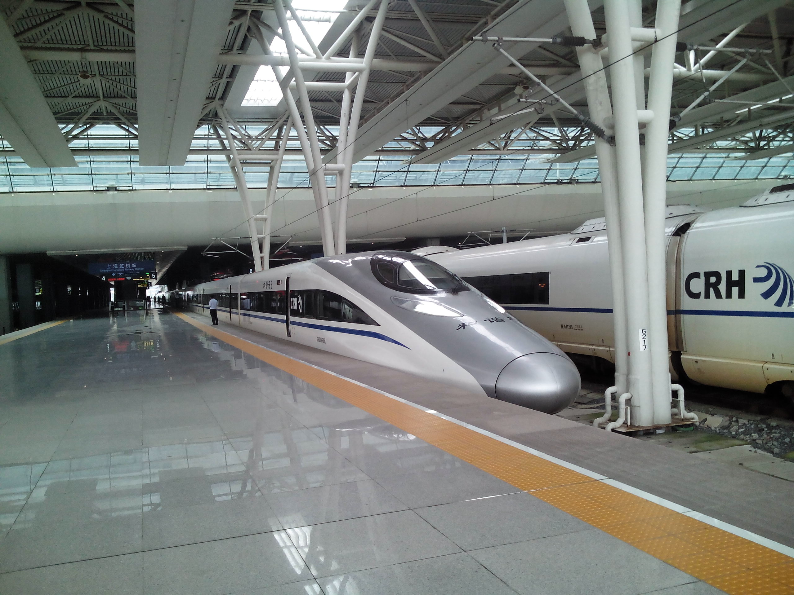 201408 G676 by Shanghainese CRH380AL at Shanghai Hongqiao Station